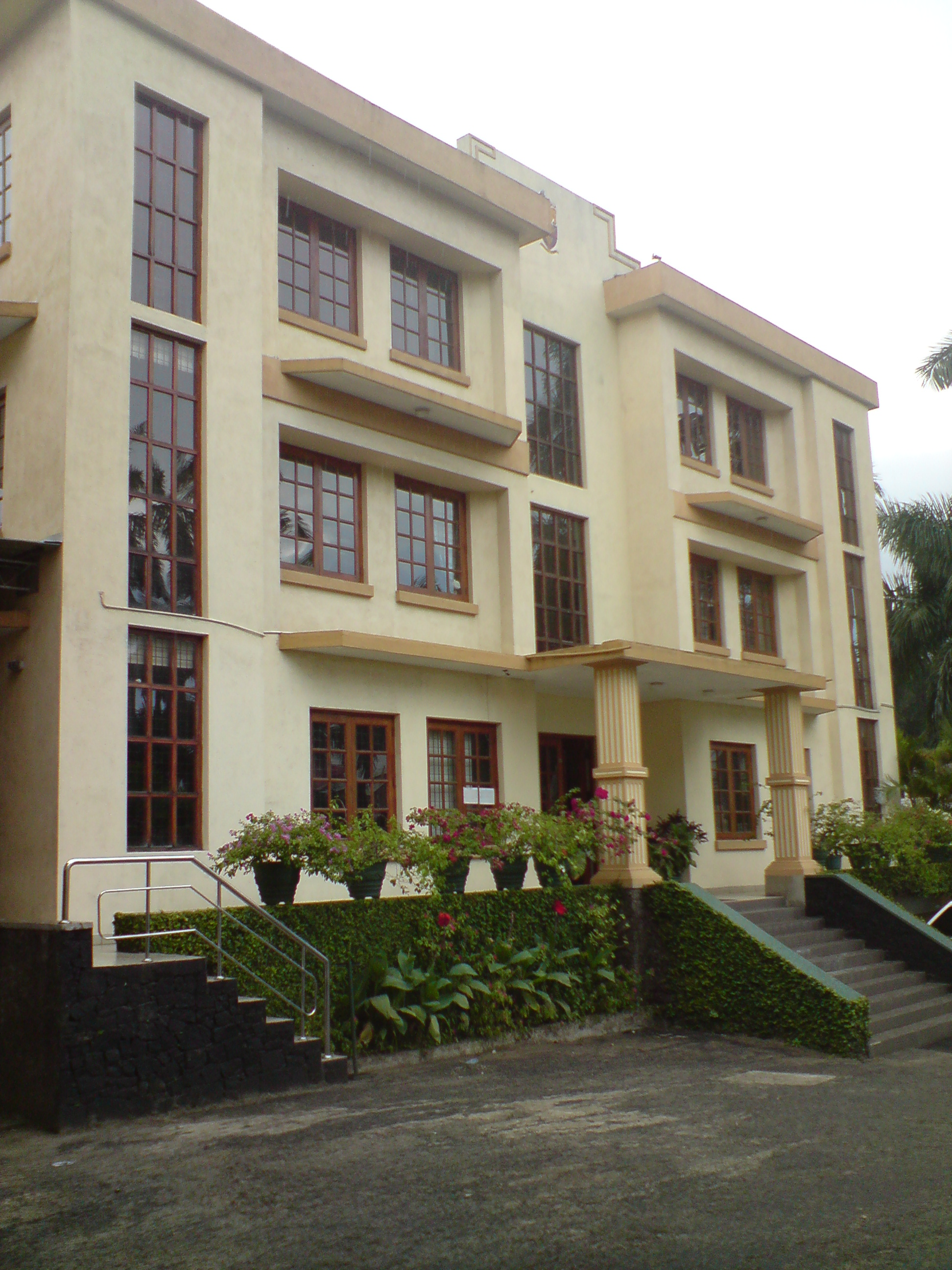 administration block